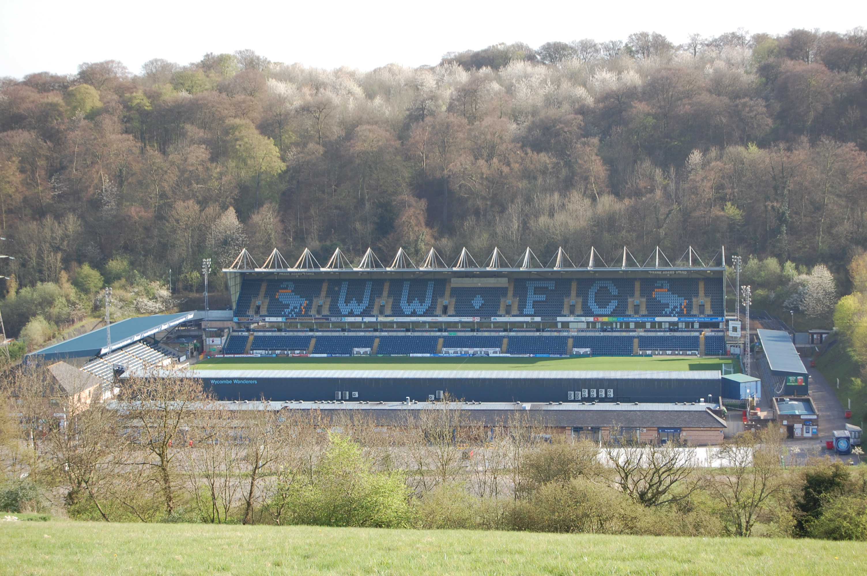 Adams Park from an elevated position north of the ground